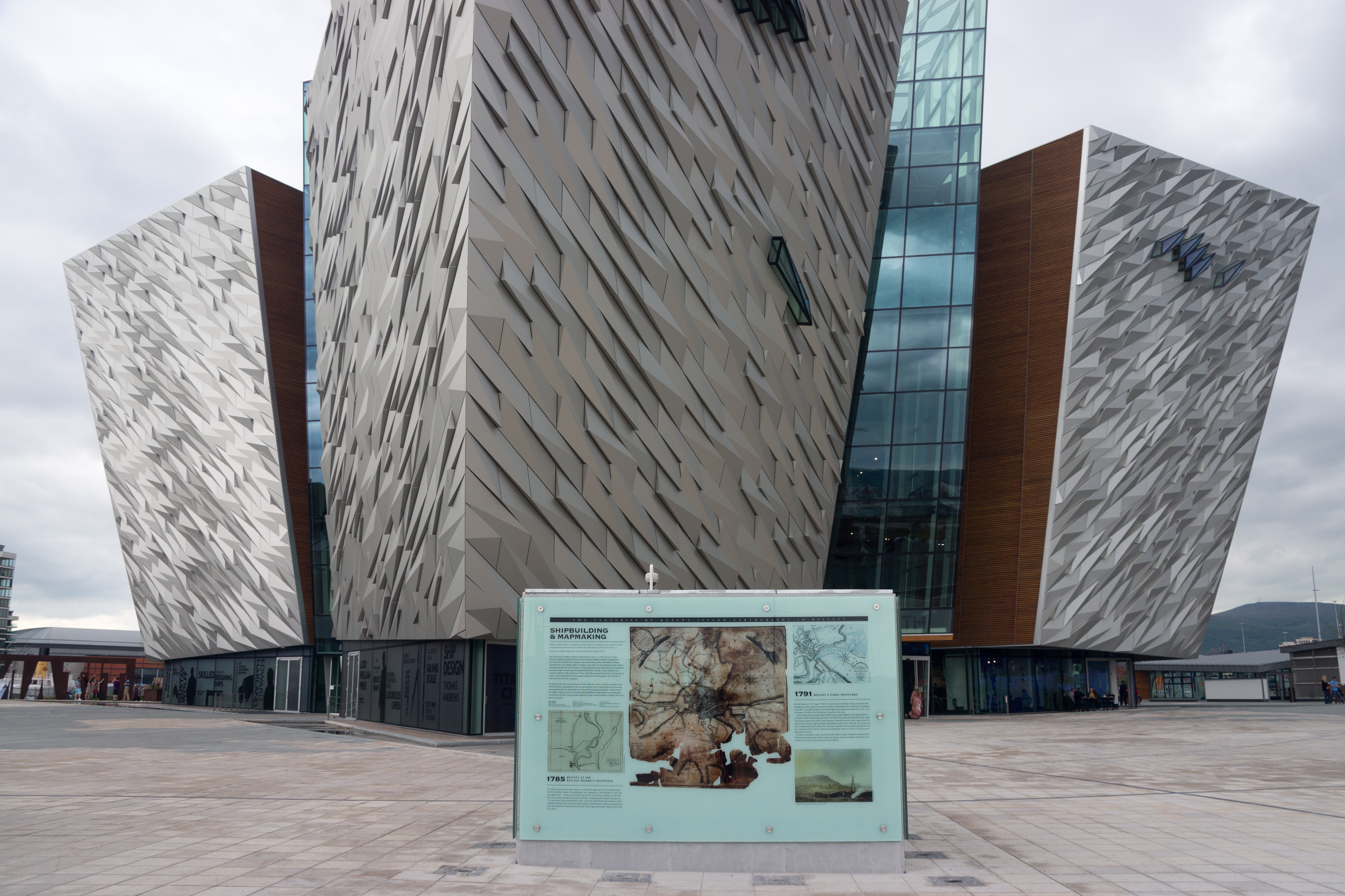 Titanic Belfast is an iconic six-floor building featuring nine interpretive galleries